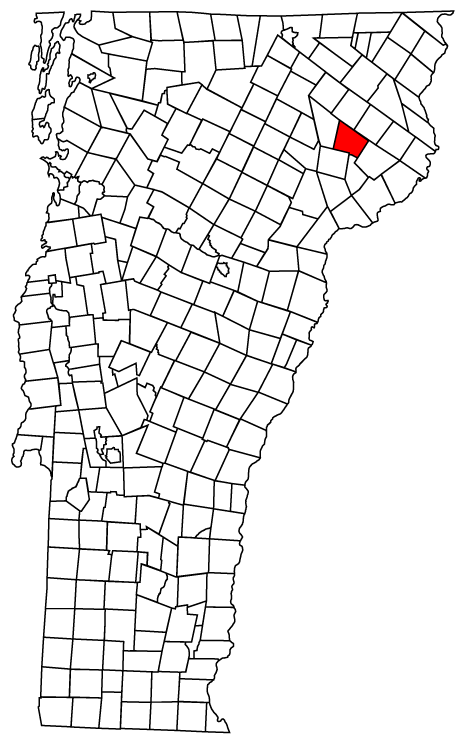 Map of Vermont towns with Burke highlighted